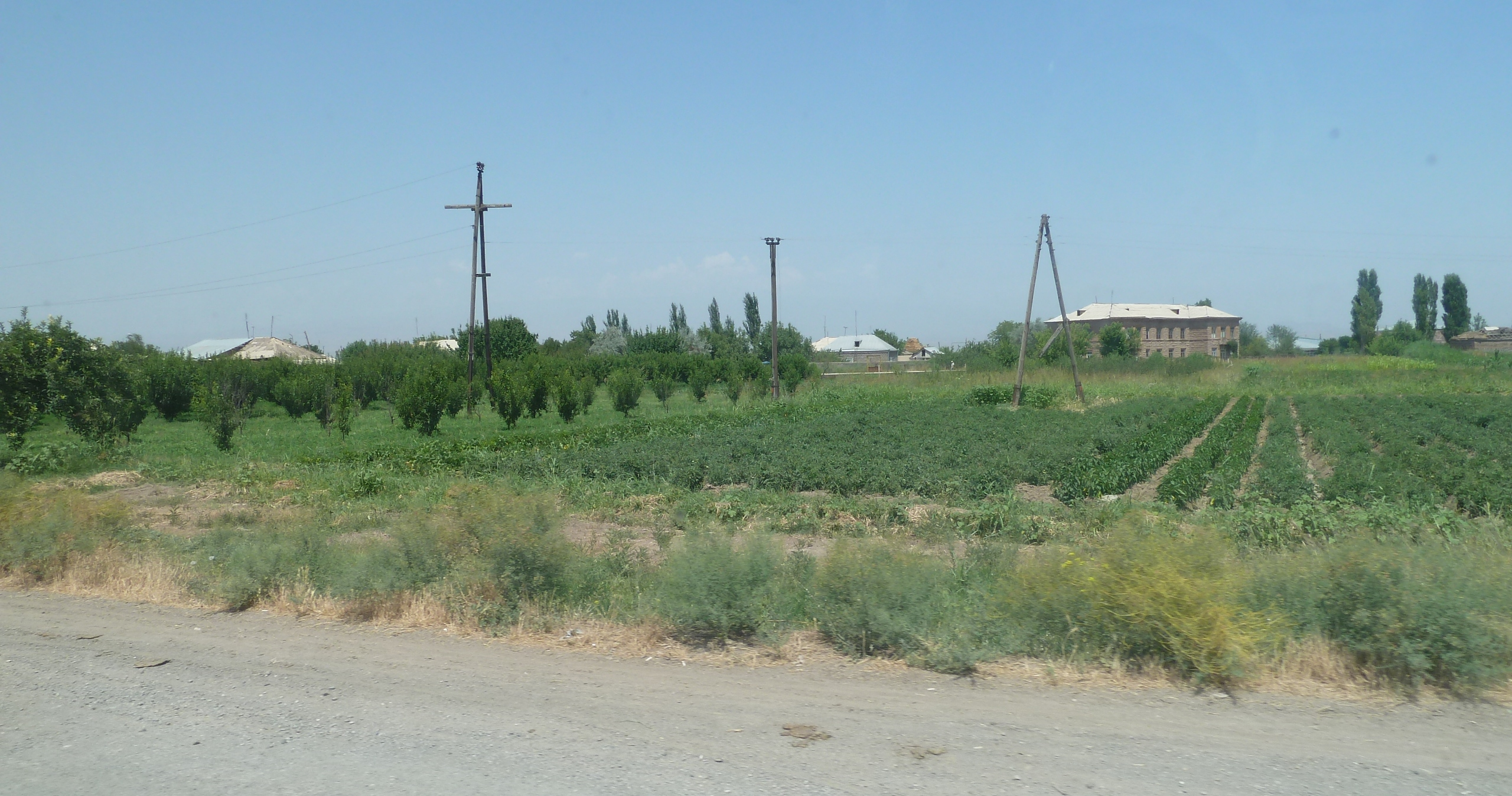 From road entering Lenughi village. Armavir, Armenia